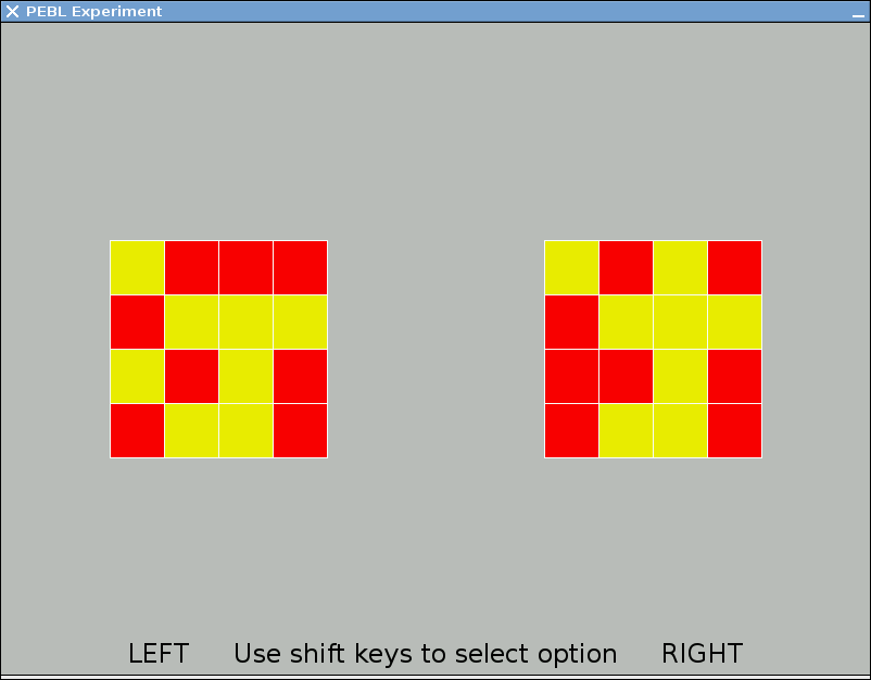 An example screen shot of a Match-to-Sample Task.